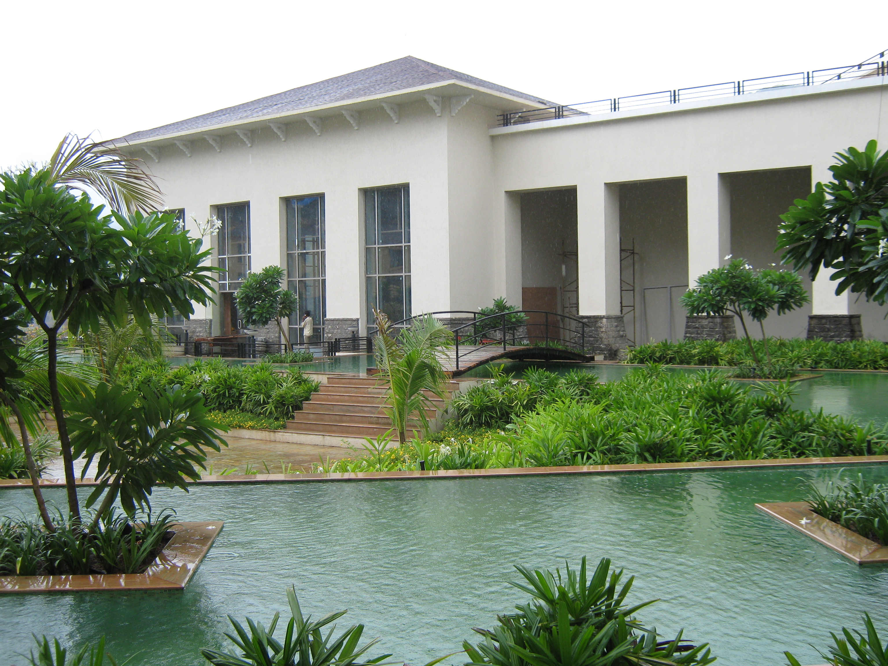 Fortune Hotel courtyard, Lavasa, Maharashtra.